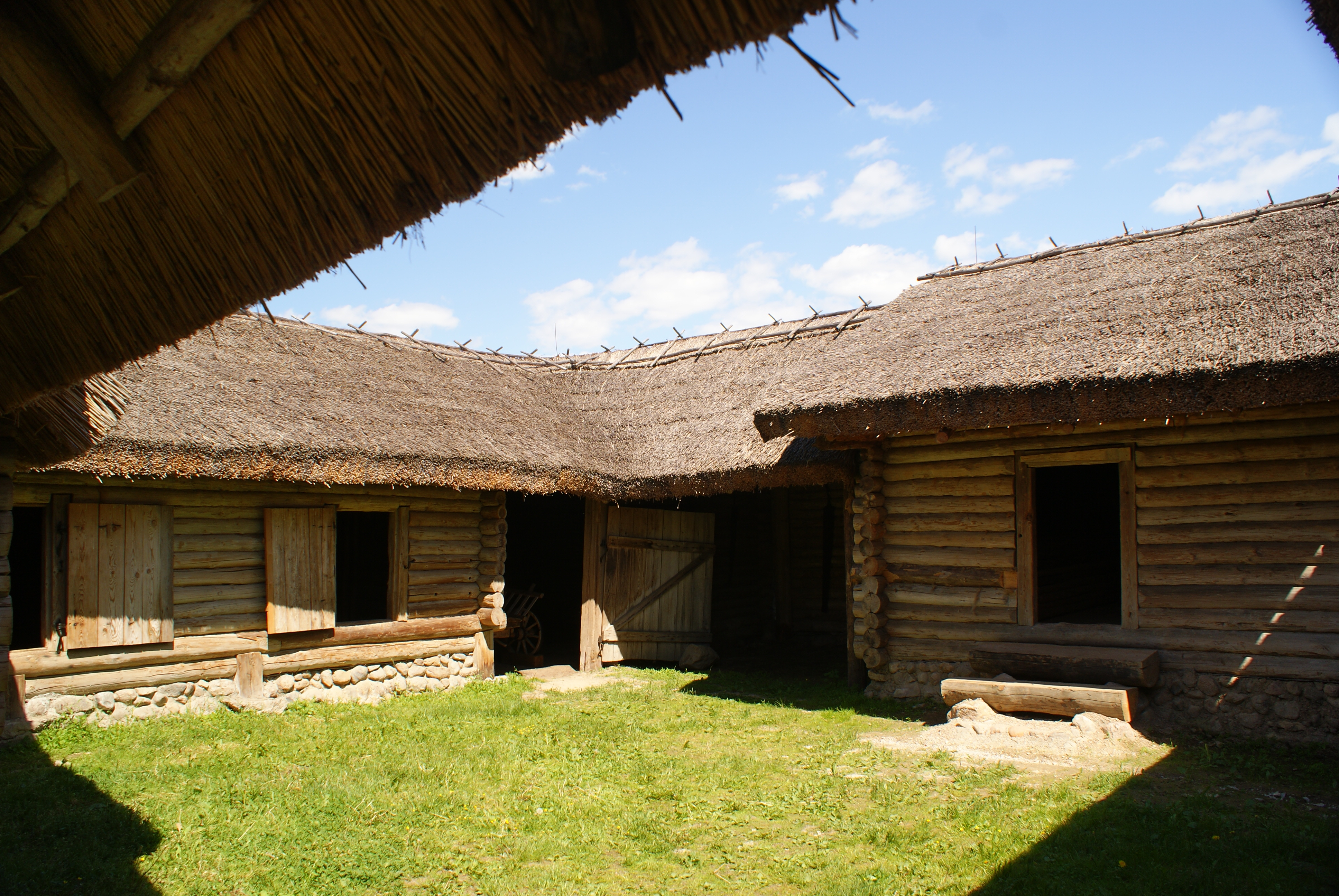 Yard. State museum of folk architecture and life, Belarus